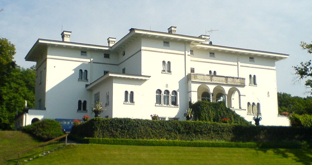 Solliden as seen from west in August 2006.